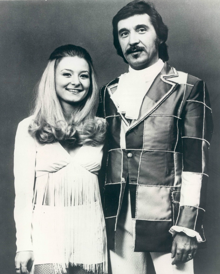 Publicity photo of Doc Severinsen and his daughter, Nancy. Severinsen, leader of the Tonight Show Orchestra and Nancy, who was part of a vocal group called Today's Children, were performing together at the American Invitational horse jumping competition in Tampa in 1974.